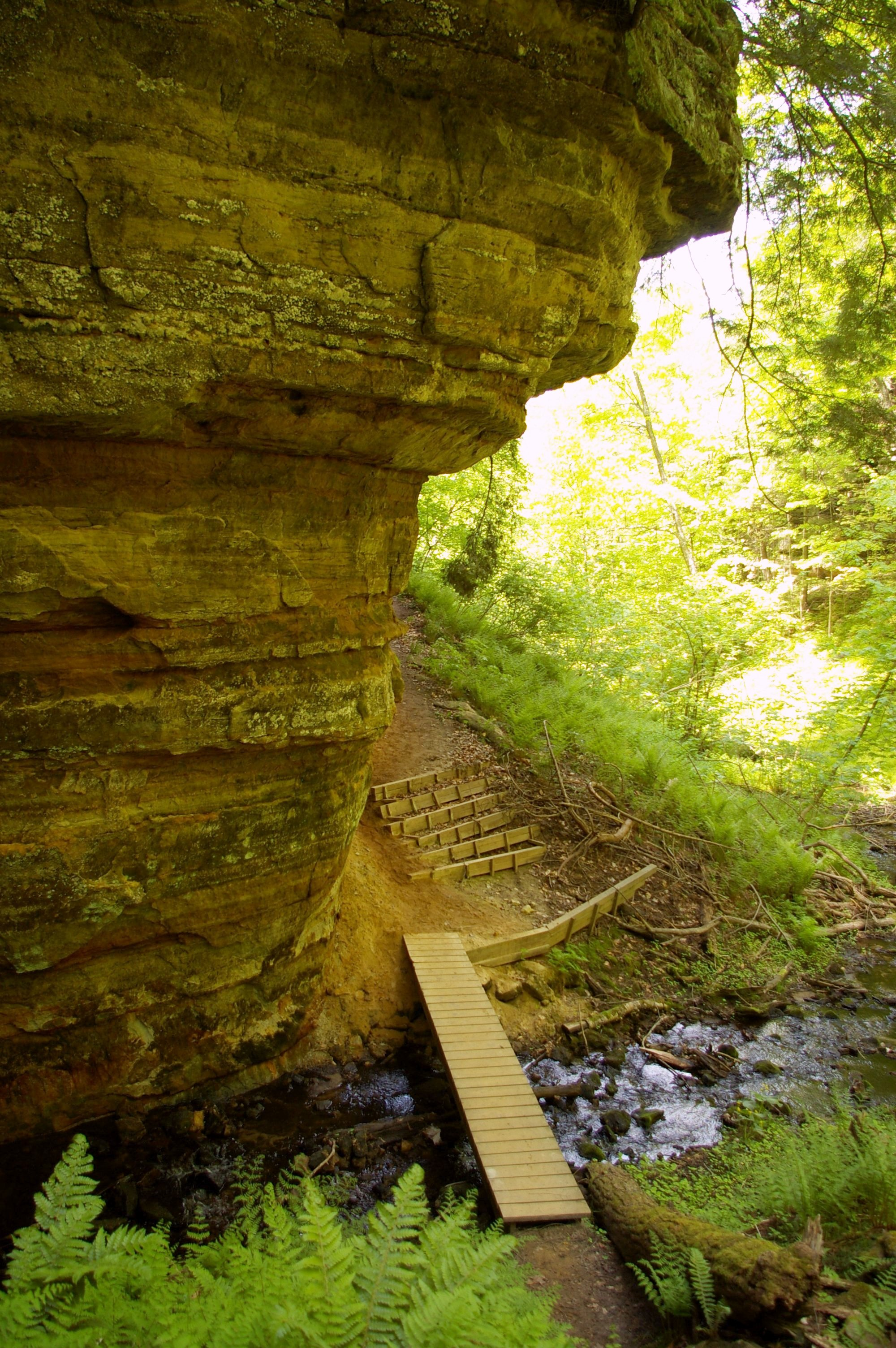 Tannery Creek under Tannery Falls in Munising Mi.